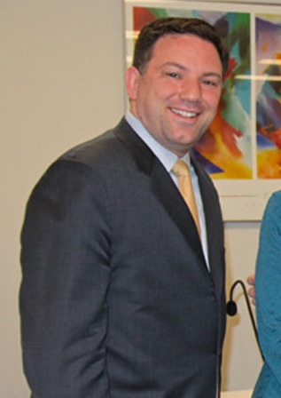 Howard County Executive Kenneth Ulman.